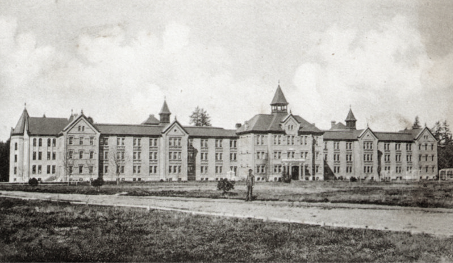 Territory of Washington, Western Washington Hospital for the Insane, Main Ward Building, Steilacoom, WA